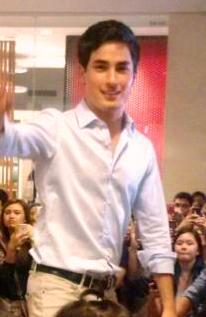 Marlon Stöckinger at the Globe Tattoo launch in Glorietta 4, Makati last May 09, 2013.